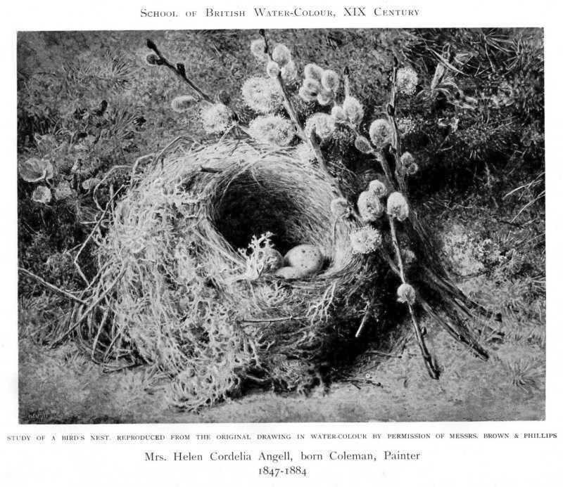 1905 print after page of Women painters of the world, from the time of Caterina Vigri, 1413-1463, to Rosa Bonheur and the present day, by Walter Shaw Sparrow, The Art and Life Library, Hodder & Stoughton, 27 Paternoster Row, London